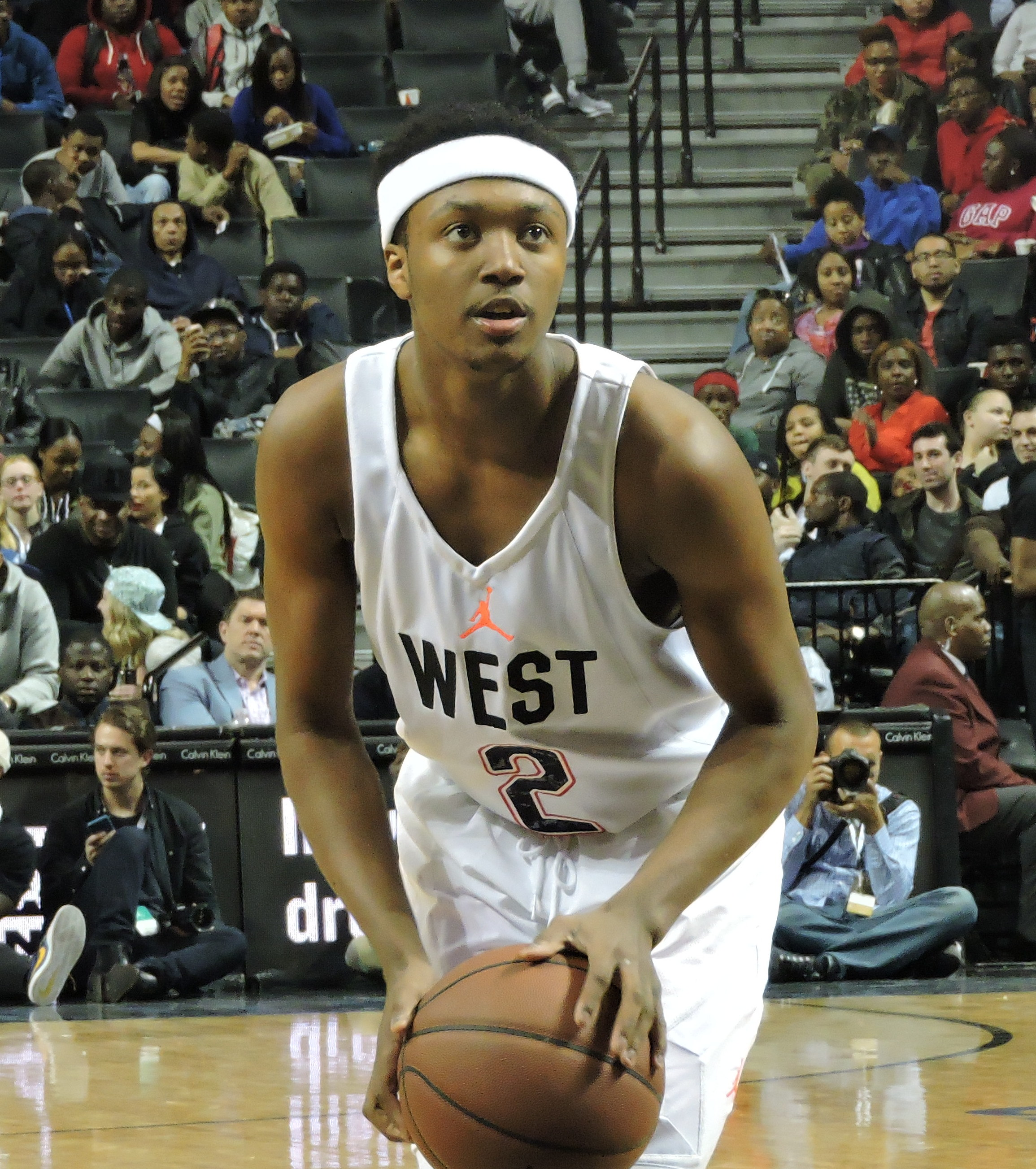 Shamorie Ponds at the 2016 Jordan Brand Classic